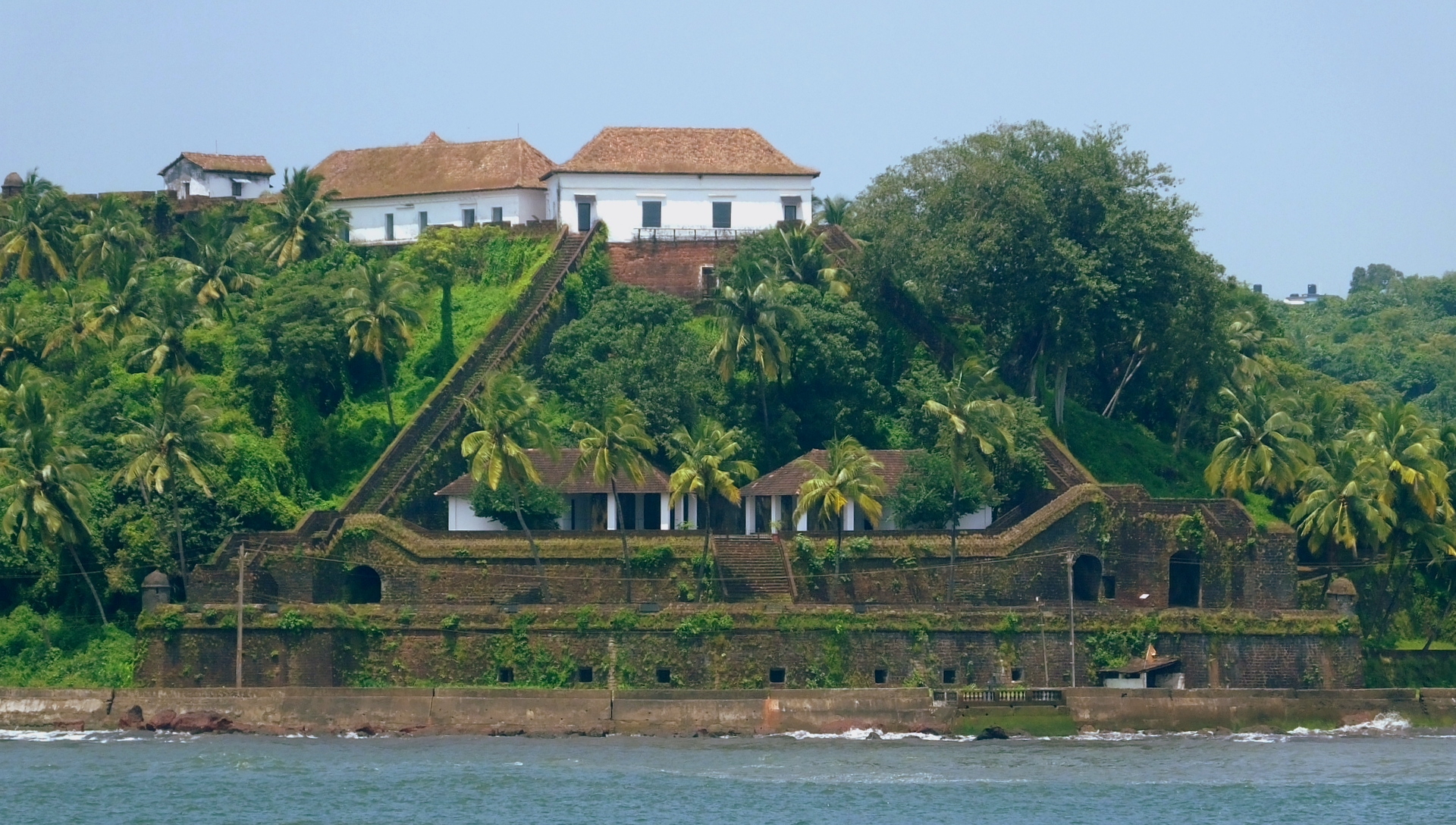 A view of the Reis Magos Fort from a boat cruise on the Mandovi River